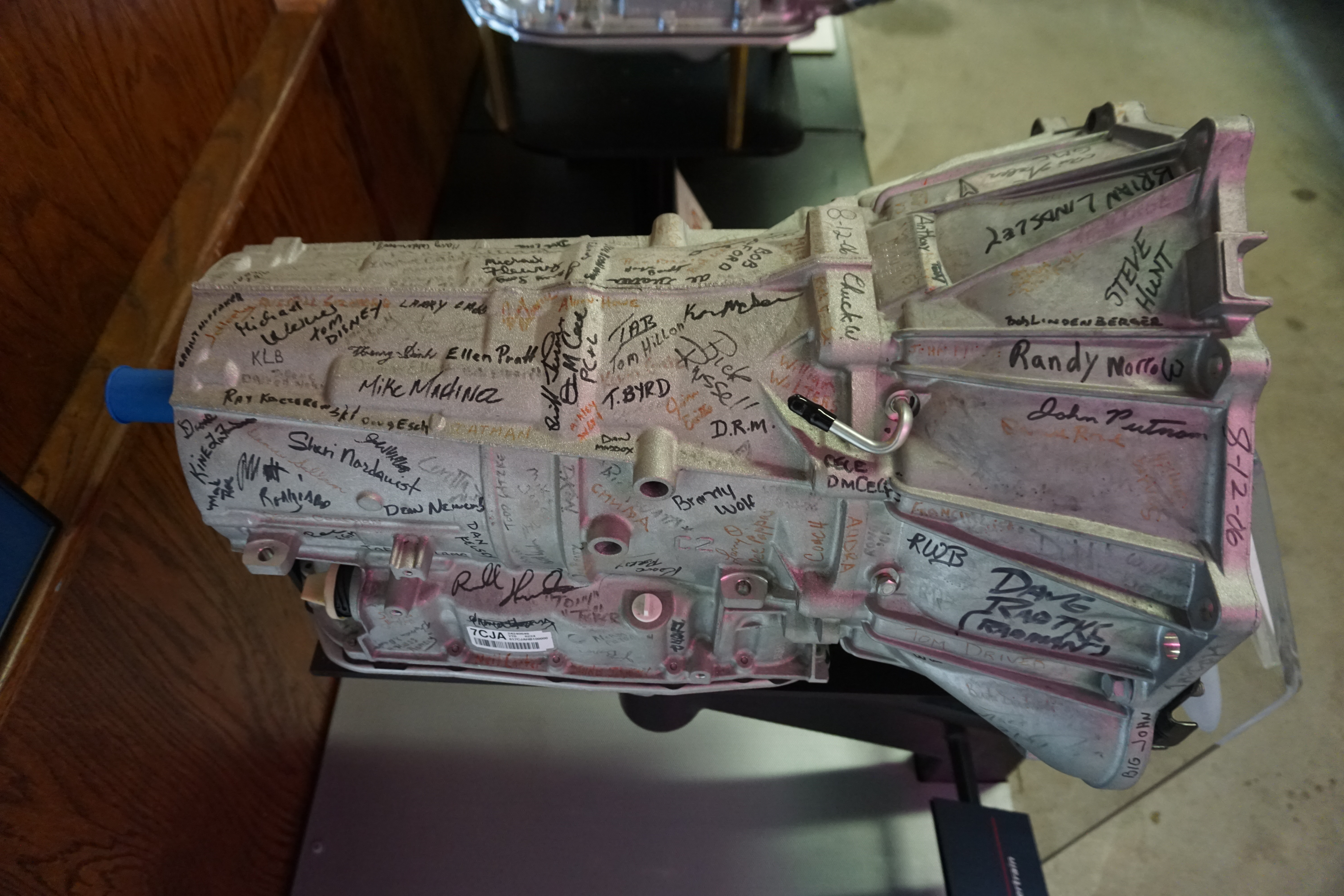 A Hydra-Matic 6L80 transmission at the Ypsilanti Automotive Heritage Museum in Ypsilanti, Michigan (United States).